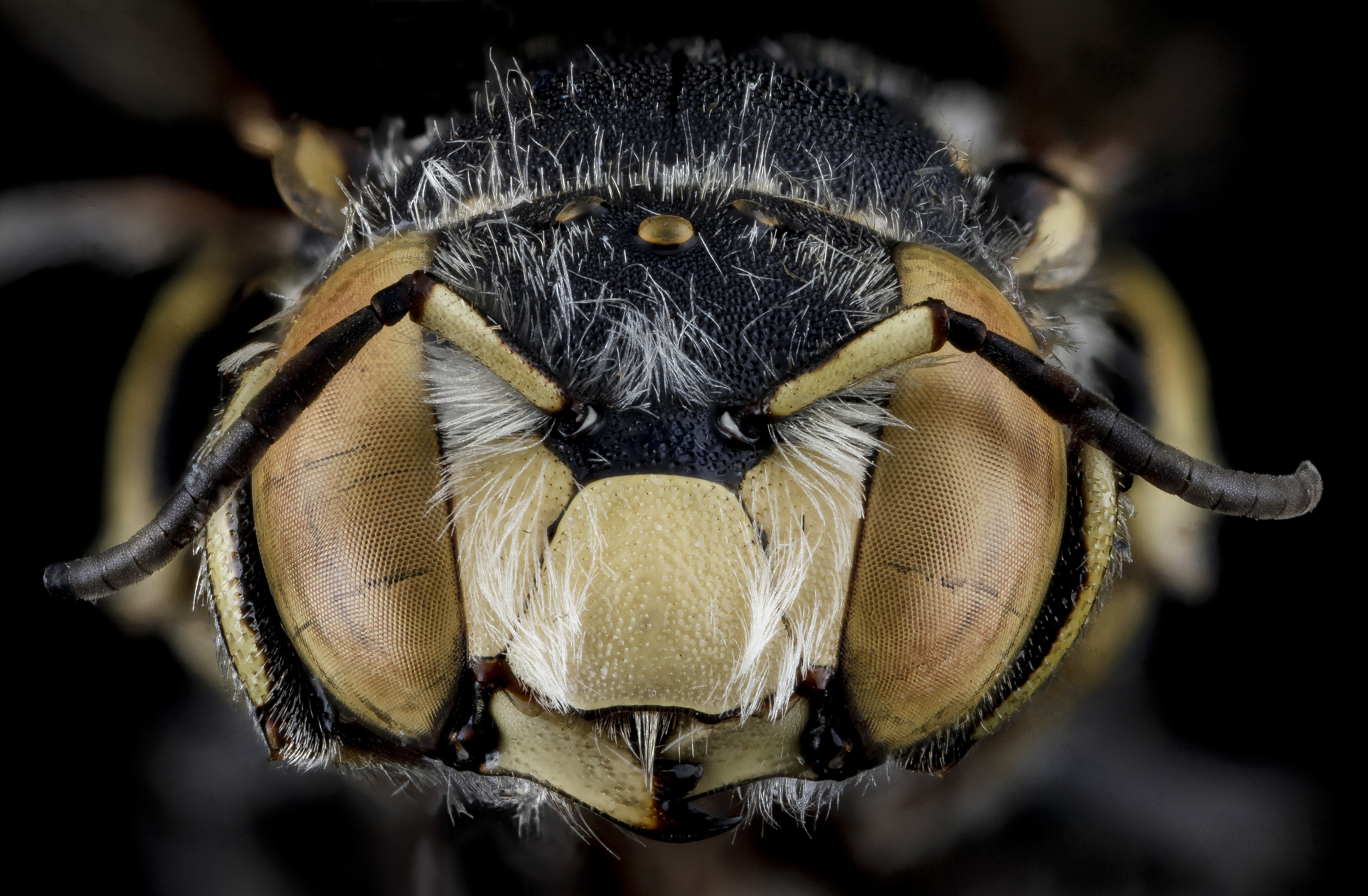 Key Biscayne National Park, Florida